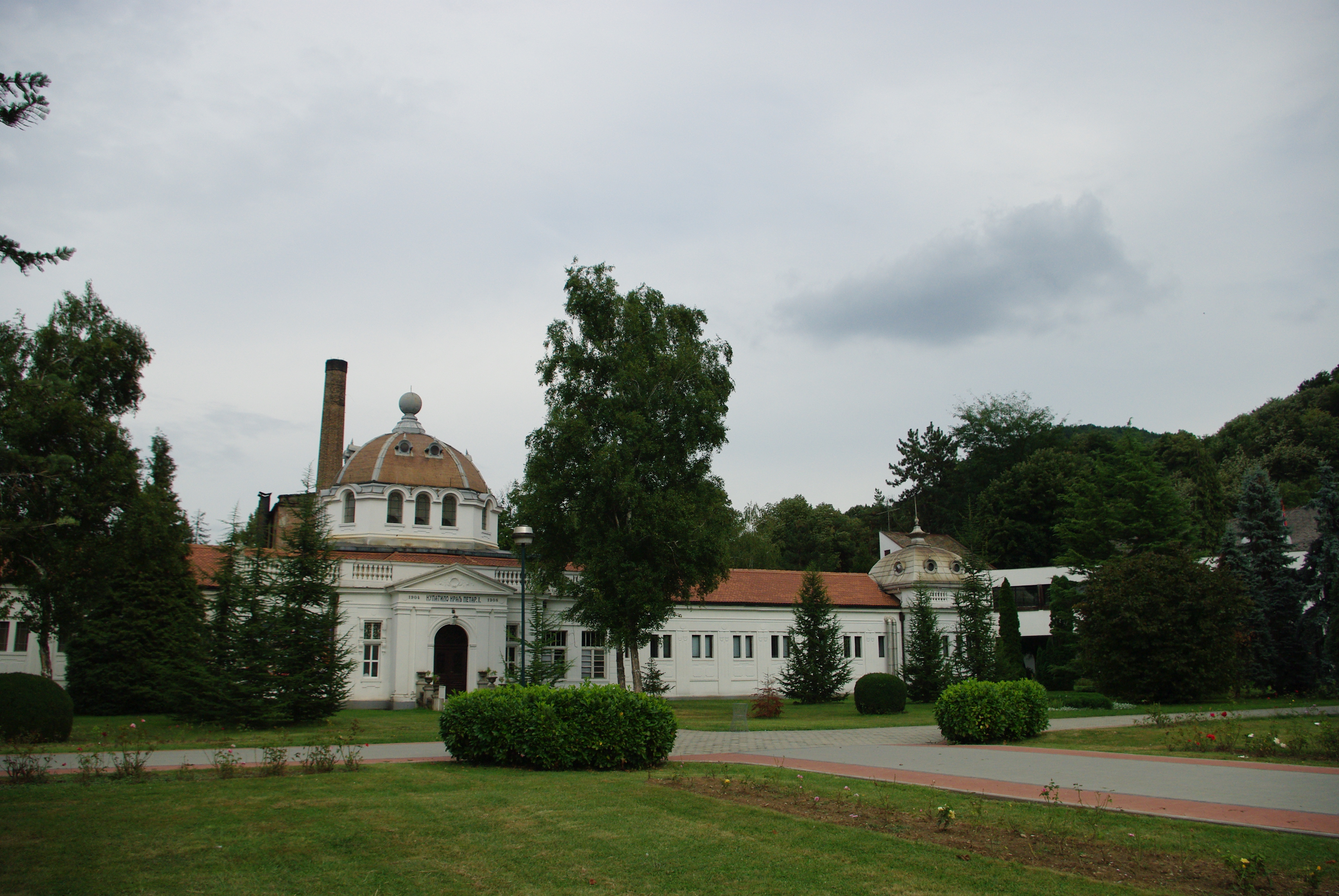 King Piter's bath in Banja Koviljaca